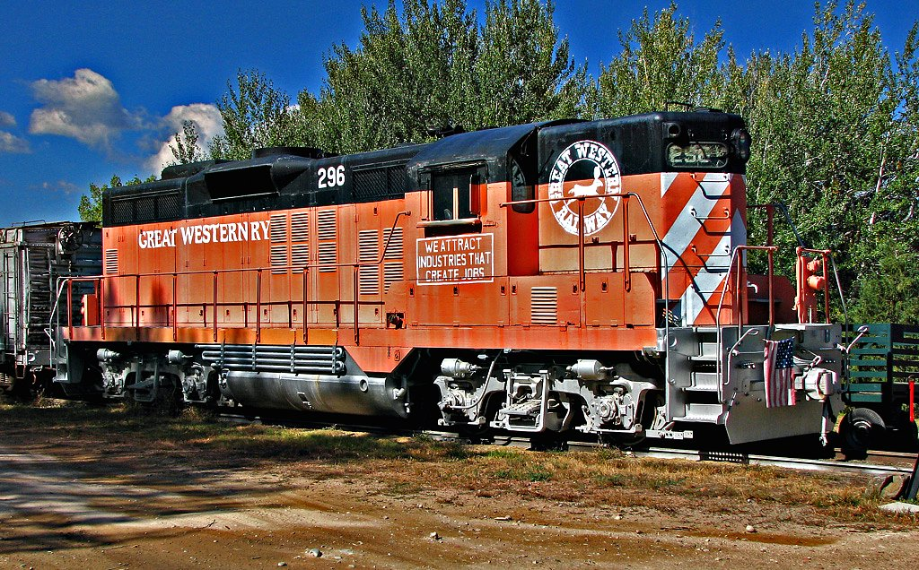 Great Western RY GP9 296. Built in 1954 for the Union Pacific and served as its #296 until 1985 when it was sold to the GW. It last served the GW from 1998 to 2003 as a switch engine at Longmont, Colorado. I spotted the engine as we drove along Valmont in Boulder. Colorado. Going back the next day, we found it was the site of Boulder Railroad Historical Society. We met a friendly man who supplied printed info and interesting comments. I was impressed with the restoration on several pieces of railroad historical equipment and will be posting photos later.